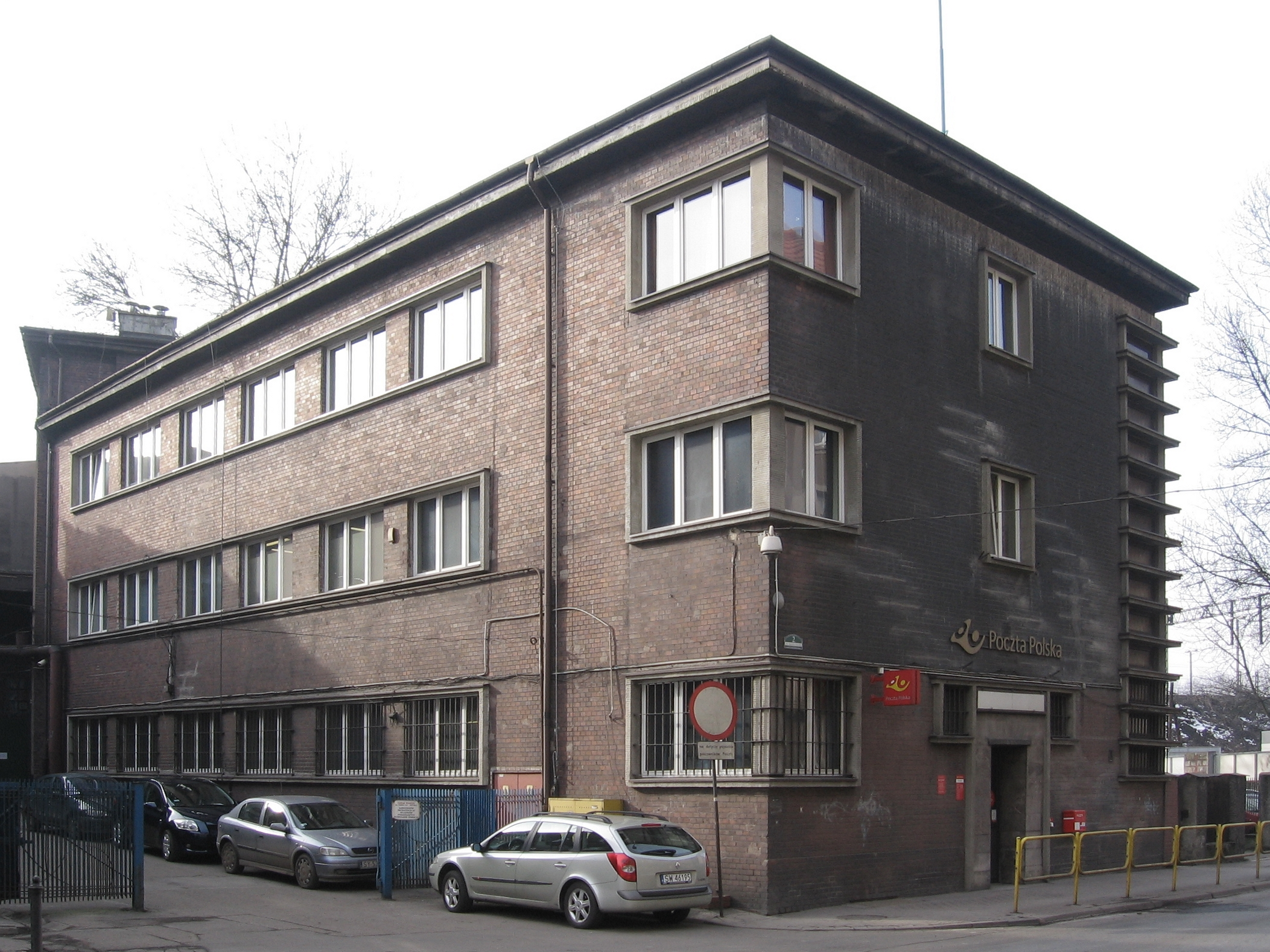 The Poczta Polska post office Bytom 2 in Bytom, Karola Miarki 2 street, Poland, project by Theodor Ehl, the cultural heritage monument.